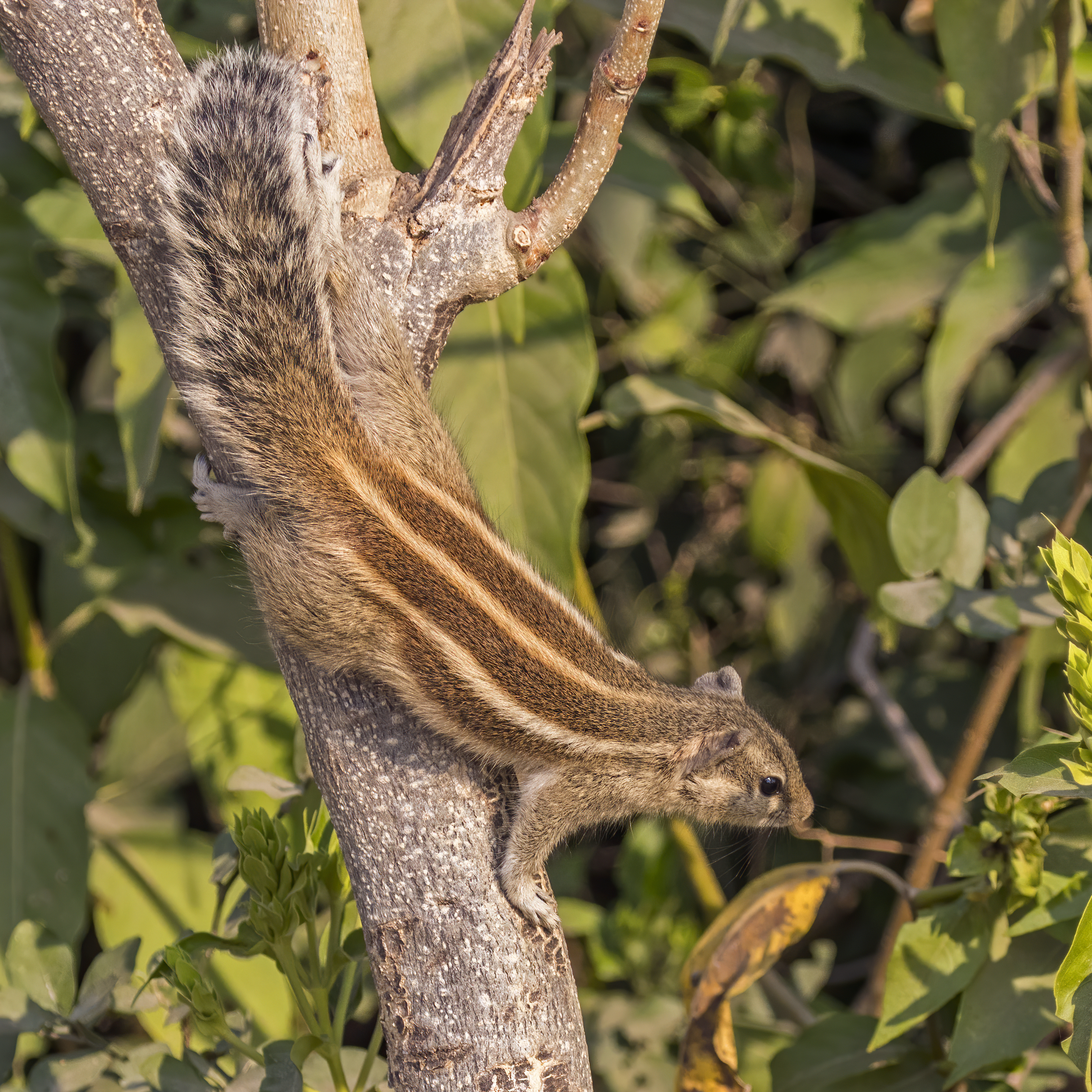 Five-striped palm squirrel (Funambulus pennantii), Keoladeo NP, Bharatpur